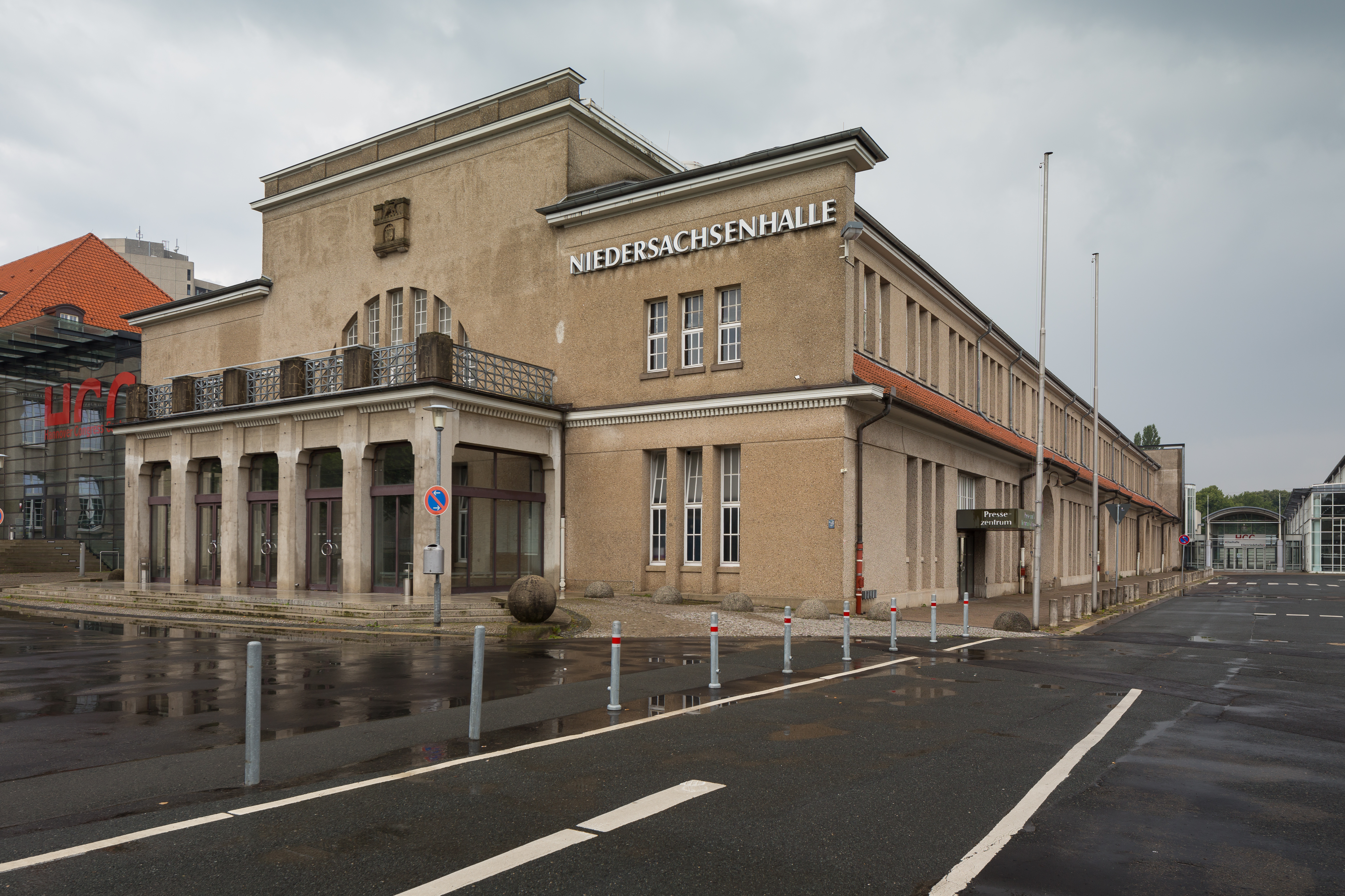 "Niedersachsenhalle" exhibition hall at the Congress Center of Hanover, Germany.